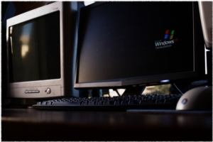 CRT and LCD flatscreen computer monitors on a desk with a mouse and keyboard.